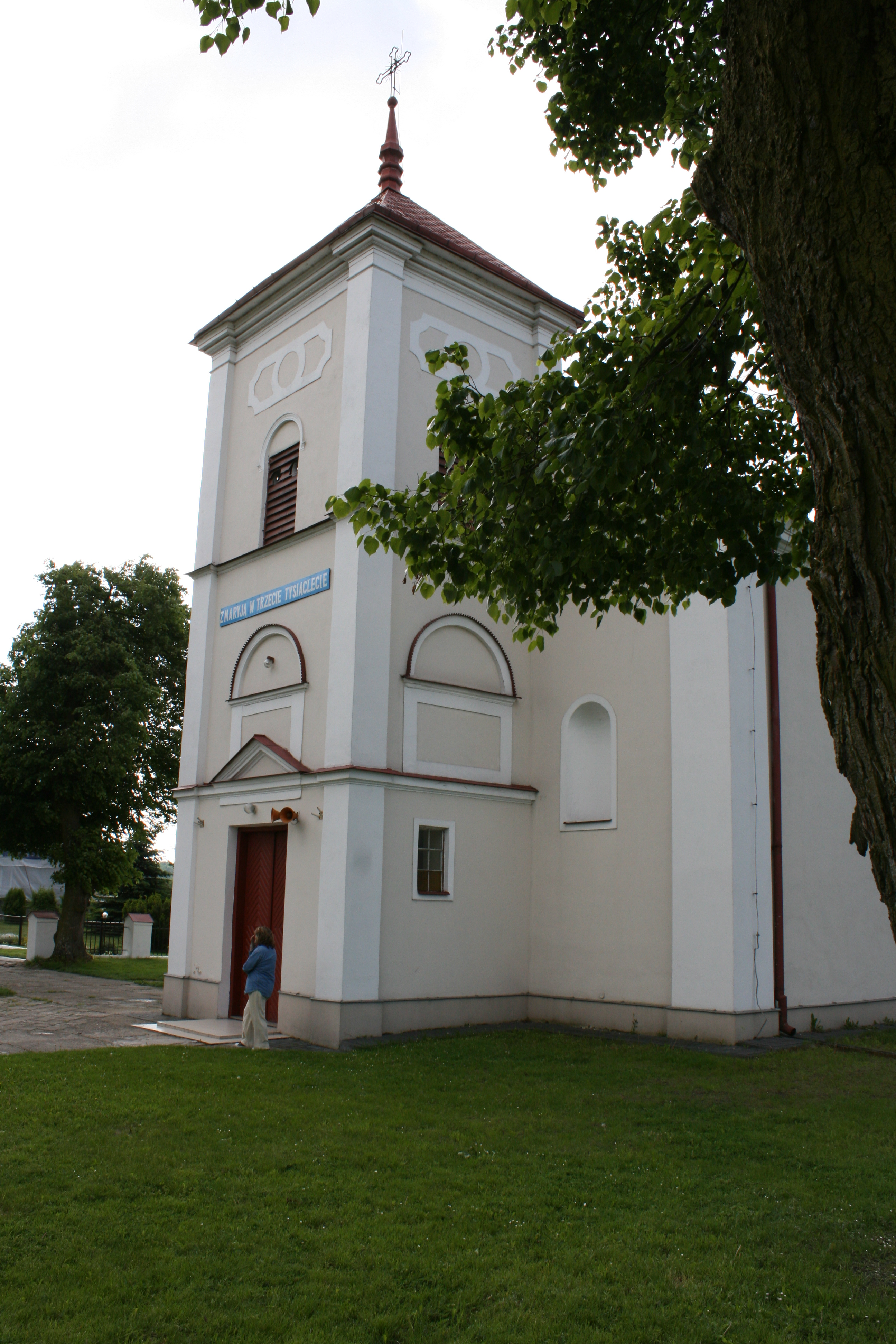 Church in Surhów